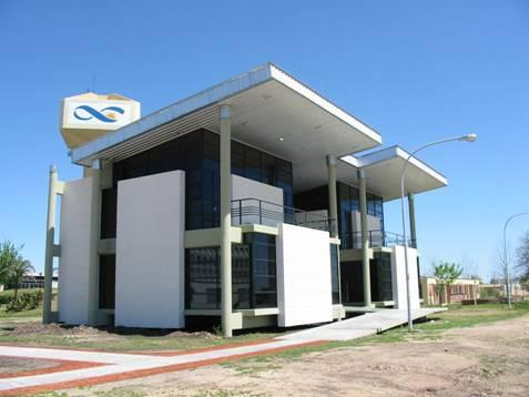 A research center in Argentina, mainly in Computational Mechanics